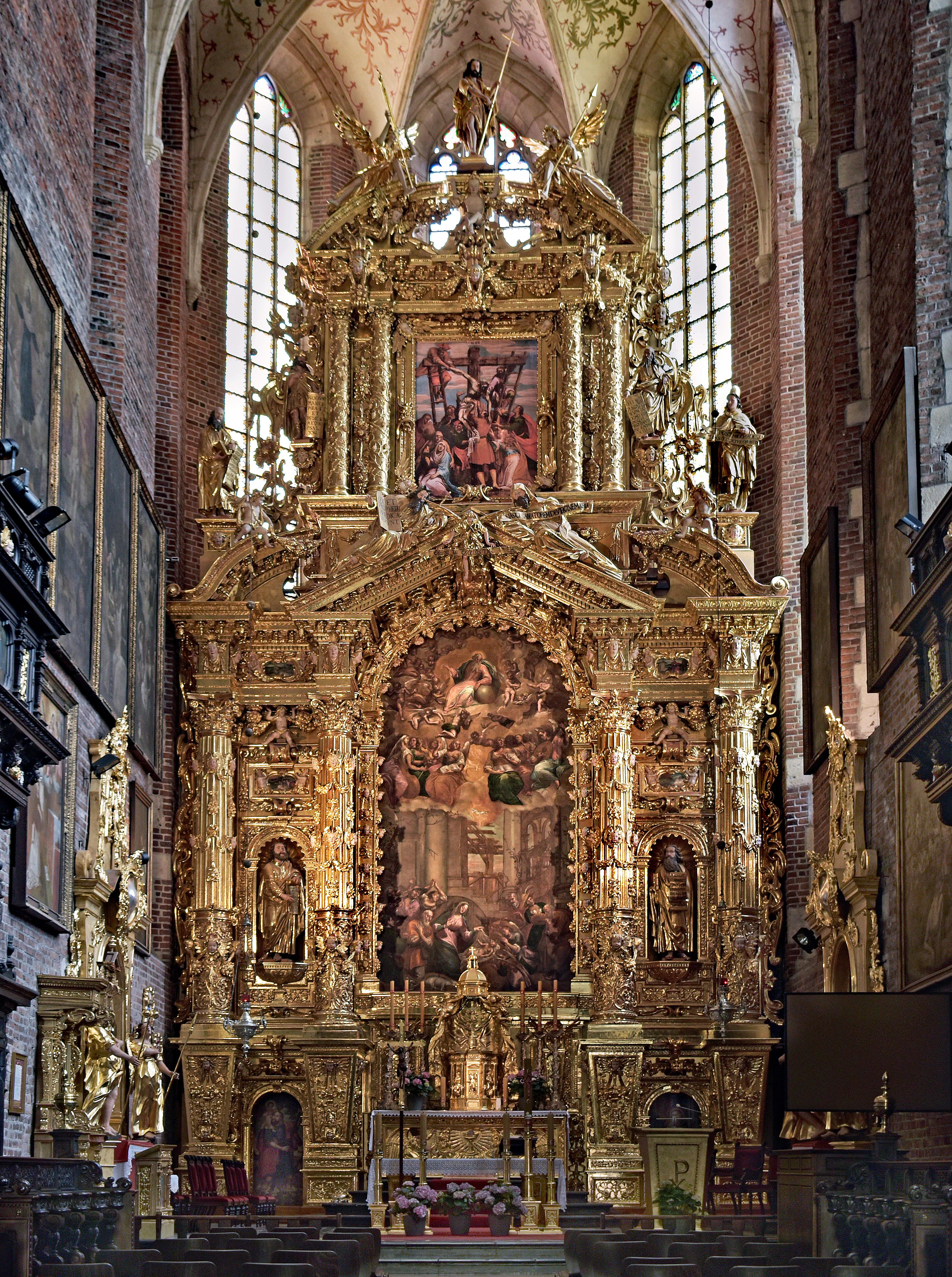 Corpus Christi Church, main altar, 26 Bozego Ciala str, Kazimierz, Krakow, Poland